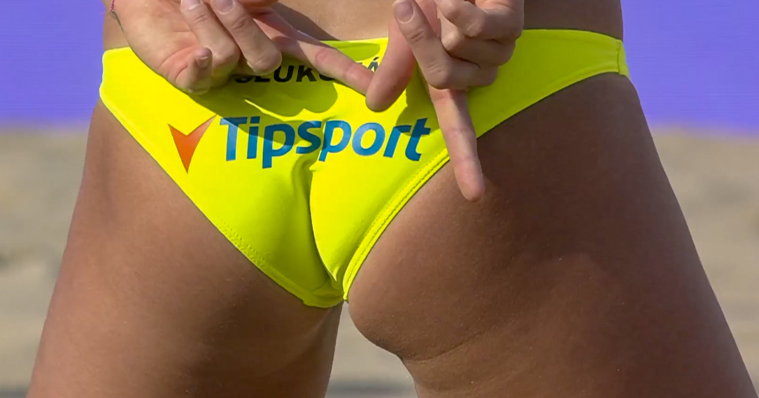 Slukova signals for a double "cross-court" block during a quarter-final match at 2018 FIVB Swatch World Tour Final.